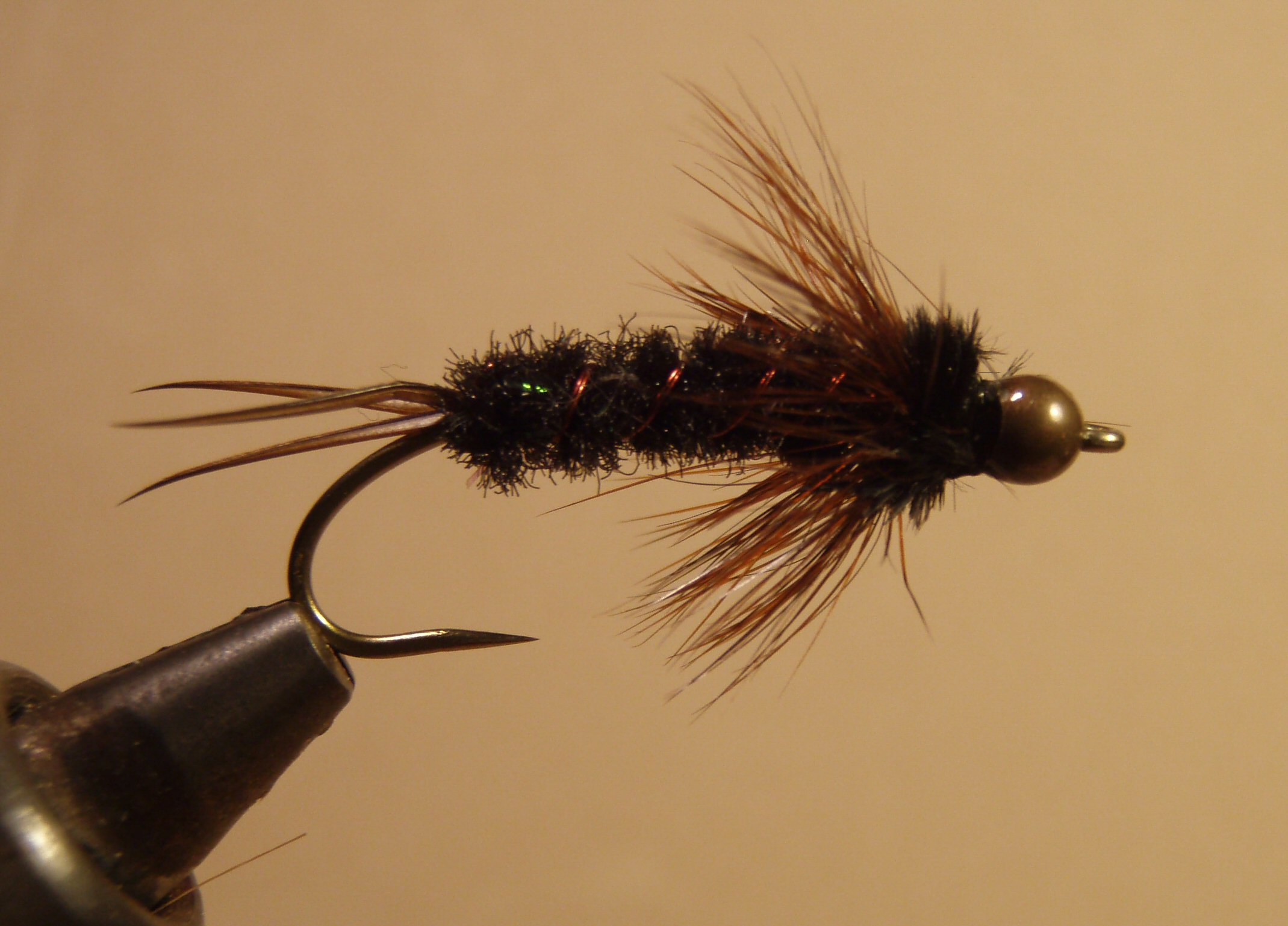 Brooks Montana Stonefly Nymph